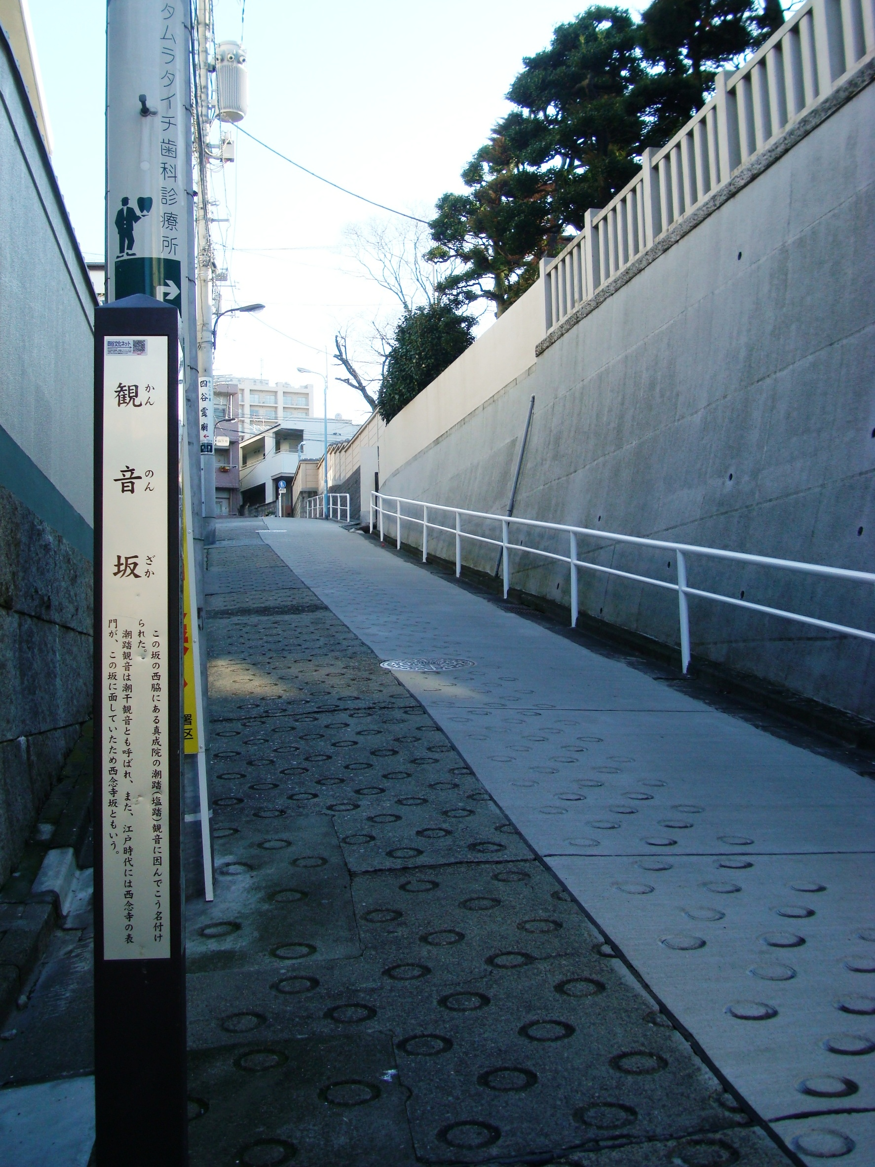 Kan-non-zaka street, Wakaba 2, Shinjuku city, Tokyo